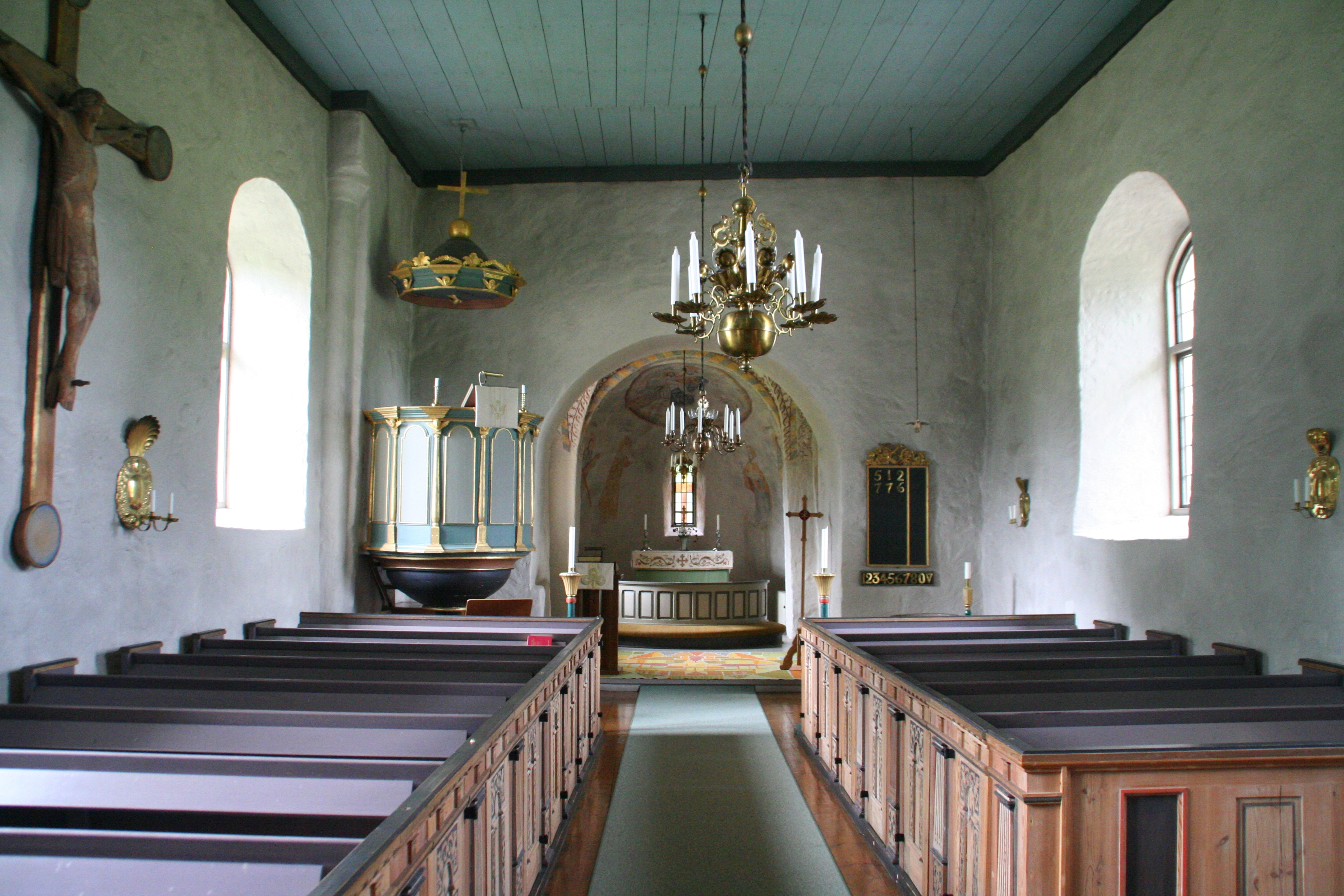 Hylletofta Church, Sweden, interior.